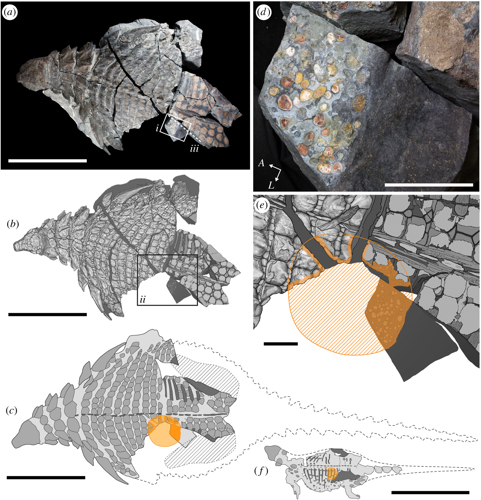 Location of abdominal mass, including stomach contents (cololite), within the well-preserved nodosaur Borealopelta markmitchelli (TMP 2011.033.0001). Photograph (a) and scientific line drawing (b) of the specimen in dorsal view. Schematic drawing (c) of specimen showing position and extent of abdominal mass, as well as extrapolated body outline. Inset (d) of i, showing close up photograph of dorsal view of posterior margin of abdominal mass. Inset (e) of ii, showing detailed map of extent of abdominal mass. (f) Schematic drawing of Kunbarrasaurus ieversi (GM F18101) scaled to (c), showing relative size and positon of cololite. Solid orange, observed cololite; hatched orange, inferred cololite. A, anterior; L, lateral. Scale bars in (a,b,c,f) are 1 m, and in (d,e) are 10 cm.